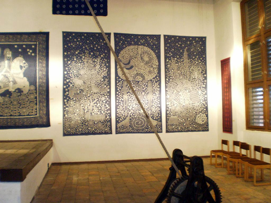 Exhibition of Irén Bódy's indigo print textiles. Indigo Dyeing Museum, Pápa, Hungary